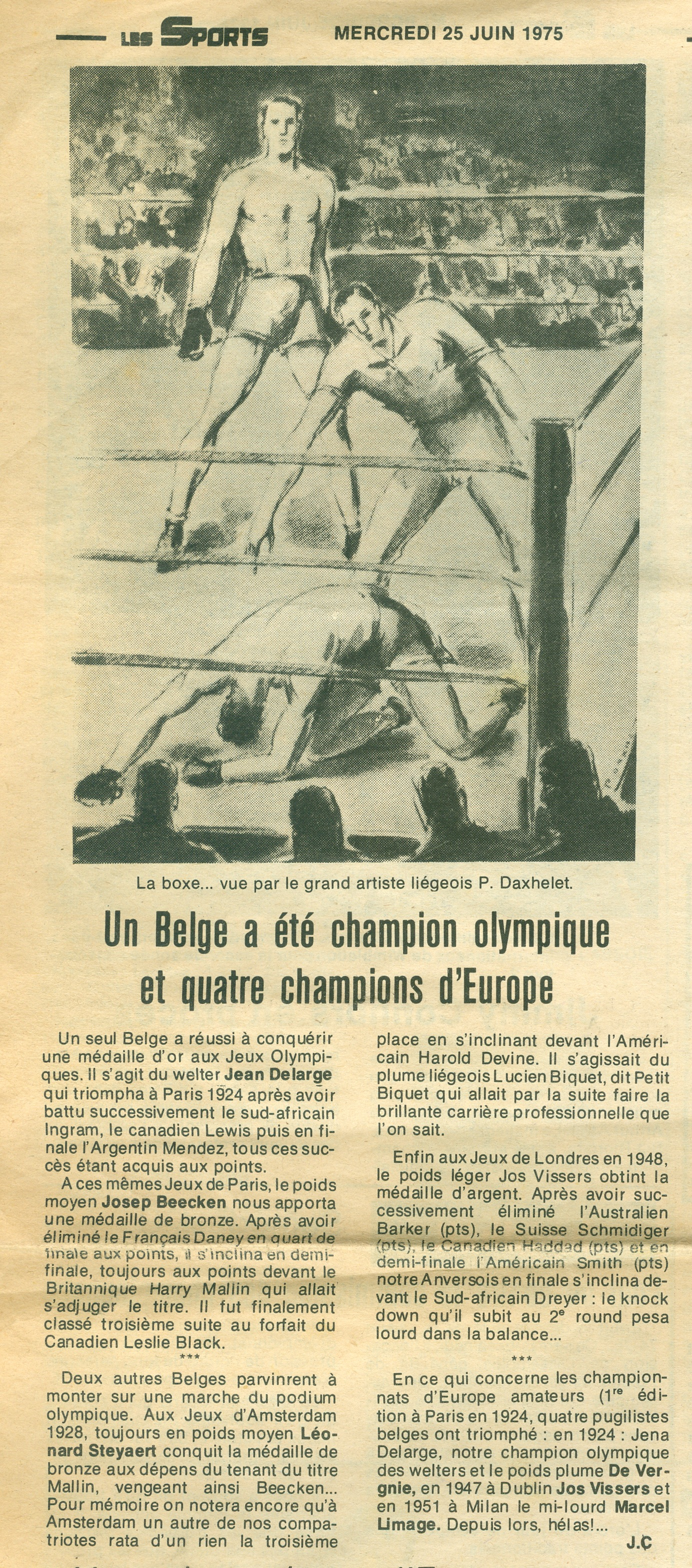 article de presse